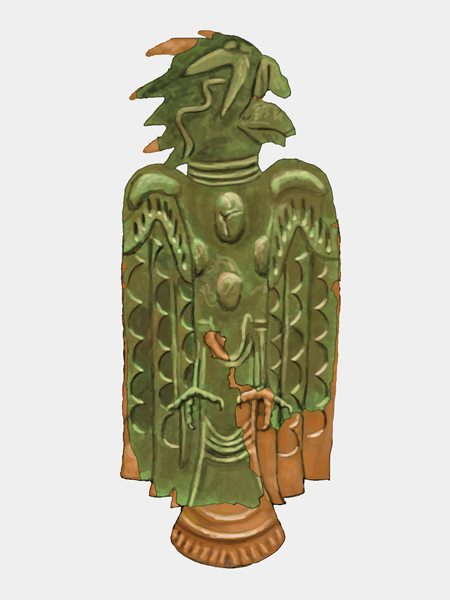 An illustration of an avian themed Mississippian culture repoussé copper plate found near Malden, Missouri in 1906. Reconstructed missing tail done using the bilateral symmetry of piece and taken from the Upper Bluff Lakes falcon plate thought to have been made by the same workshop or artist. One of eight plates found in the Wulfing cache, this one is designated Plate C, actual plate (not including reconstructed sections) is 33.5 centimetres (13.2 in) in length by 14.5 centimetres (5.7 in) in width and weighing 124.5 grams (4.39 oz). Of the eight plates it is the only one with the wavy line connected to the forked eye surround motif. [1]